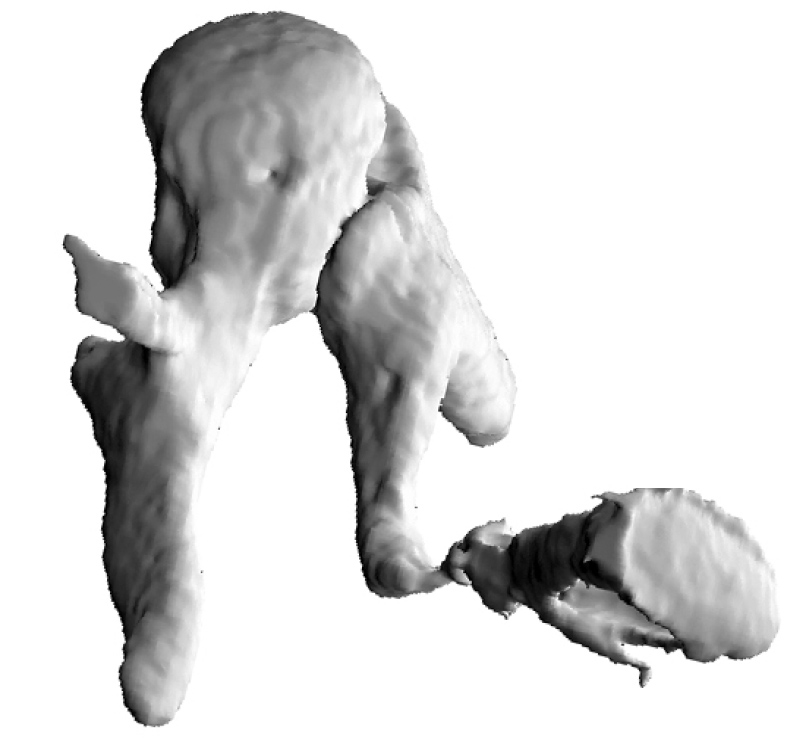 Micro-CT image of the ossicular chain showing the relative position of each ossicle.